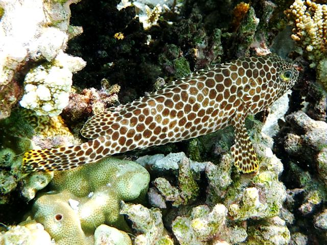 Juvenile Epinephelus merra photographed in Mirihi, Maldives